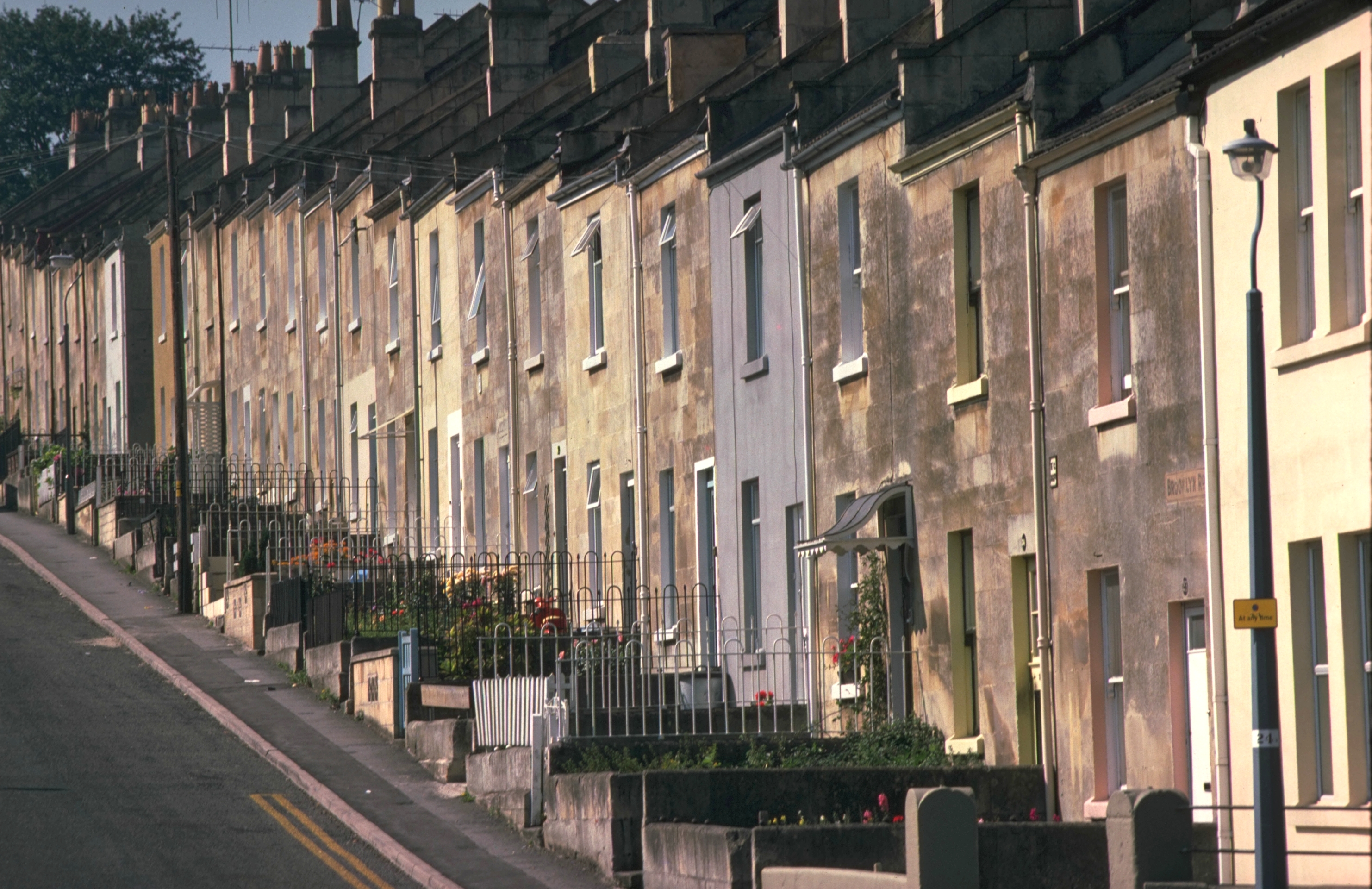 Terraced houses in Bath/ UK, Brooklyn Rd.